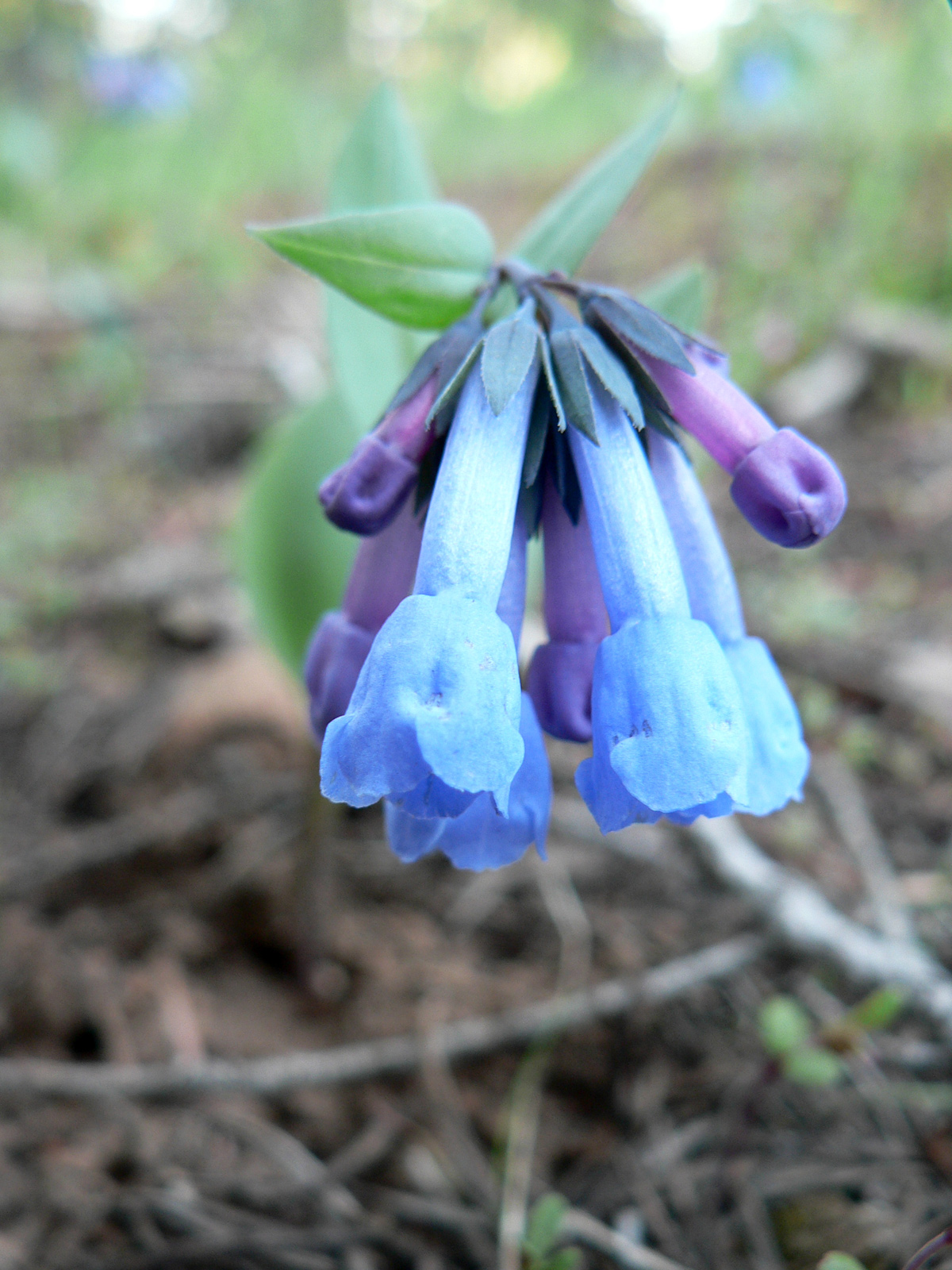 Mertensia longiflora in Washington State, USA.